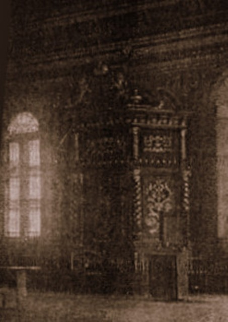 The Holy Ark of the Chortkover Kloiz in Chortkov.